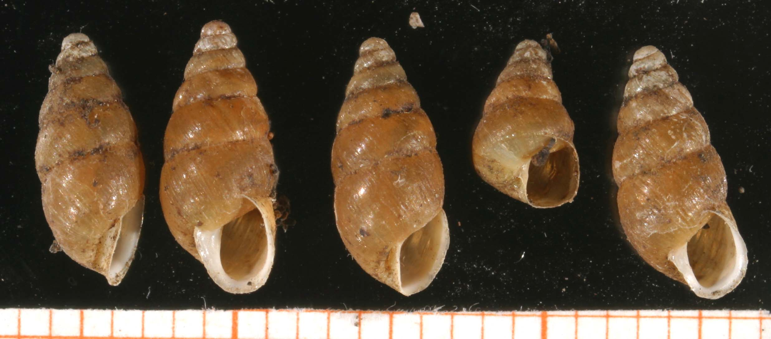 Merdigera obscura (Müller, 1774), Enidae, Pulmonata, Gastropoda, Locality: Germany: Schleswig-Holstein, Kellersee